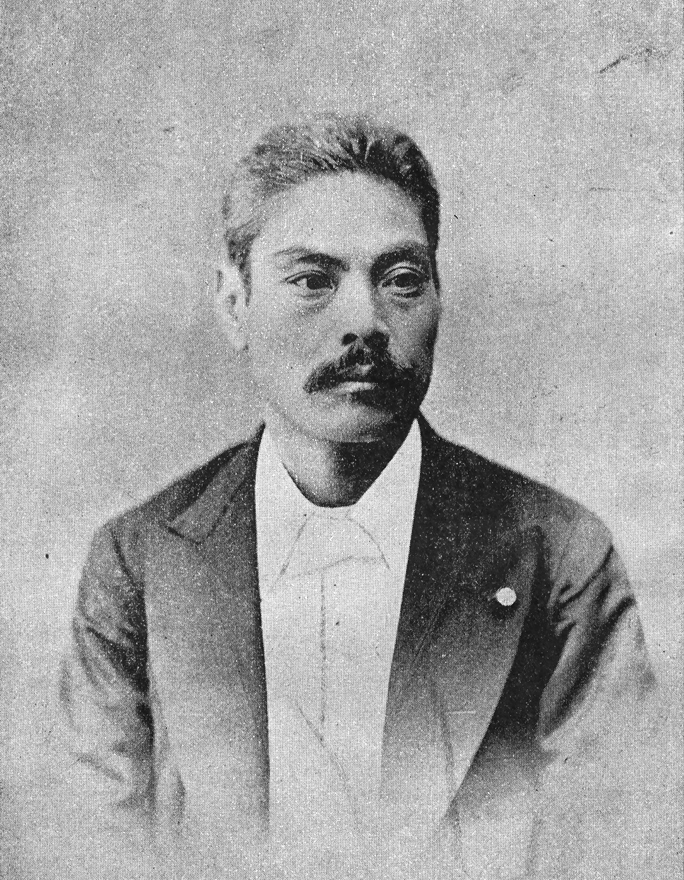 Baron Iwasaki Yanosuke, President of the Bank of Japan.